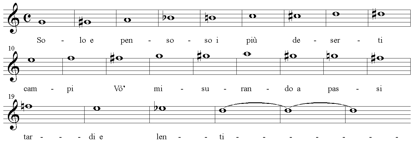 The chromatic line in the opening of Luca Marenzio's "Solo e pensoso" Madrigal. (See also Image:Marenzio solo e pensoso opening.MID.) Image by the uploader, the original work is public domain (400 years old).